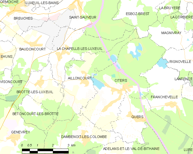 Map of French municipality